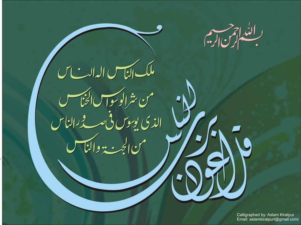 Al Naas Surah in Faiz Lahori Nastalique, Calligraphy by Aslam Kiratpuri